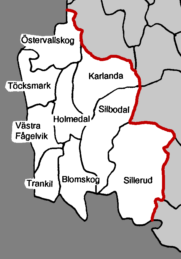 old municipalities of Aarjang